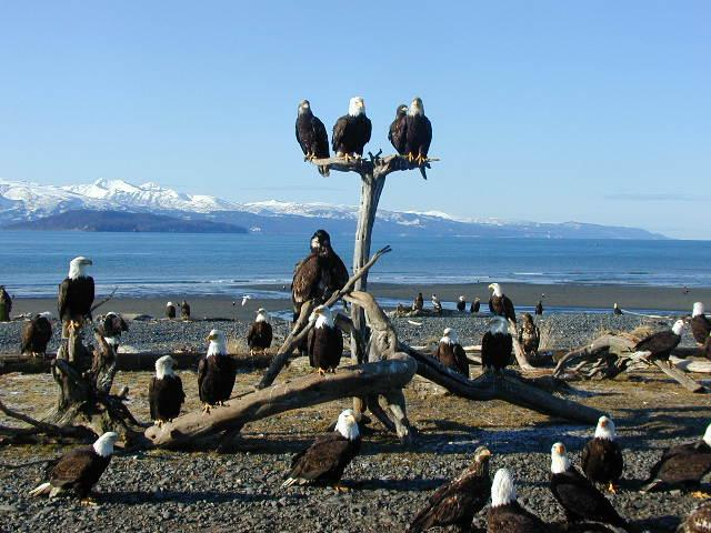 Eagles in Homer, Alaska. I got permission to use this photo from Nancy Jane York, the author. 10 April 2007.